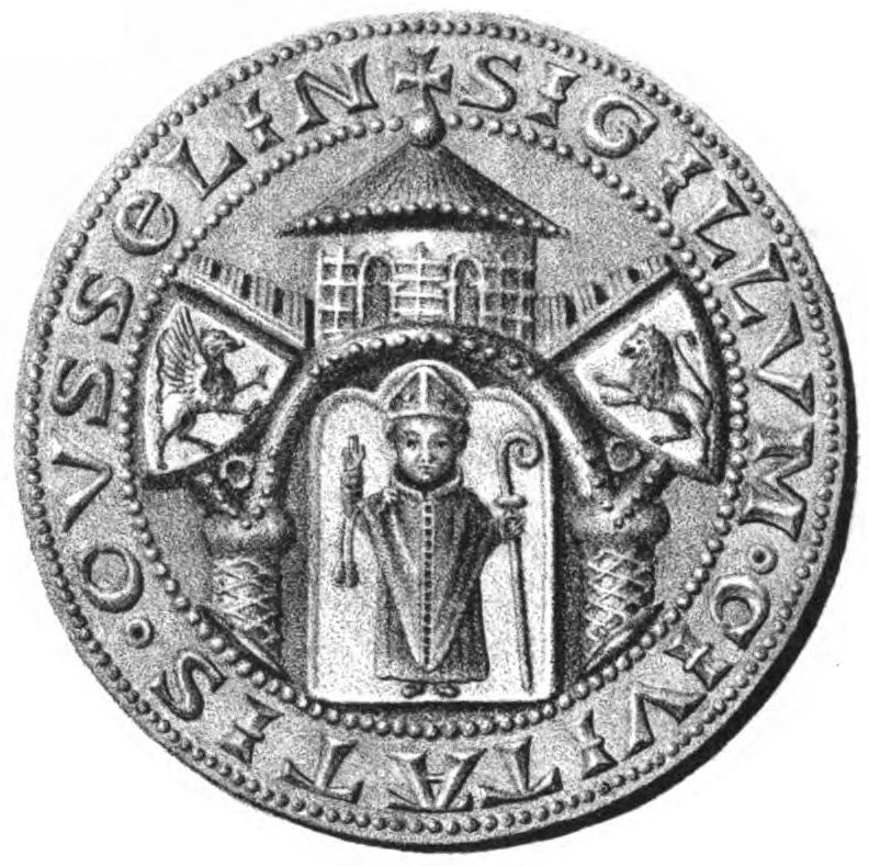 Coat of arms of Koszalin in 1266-1440